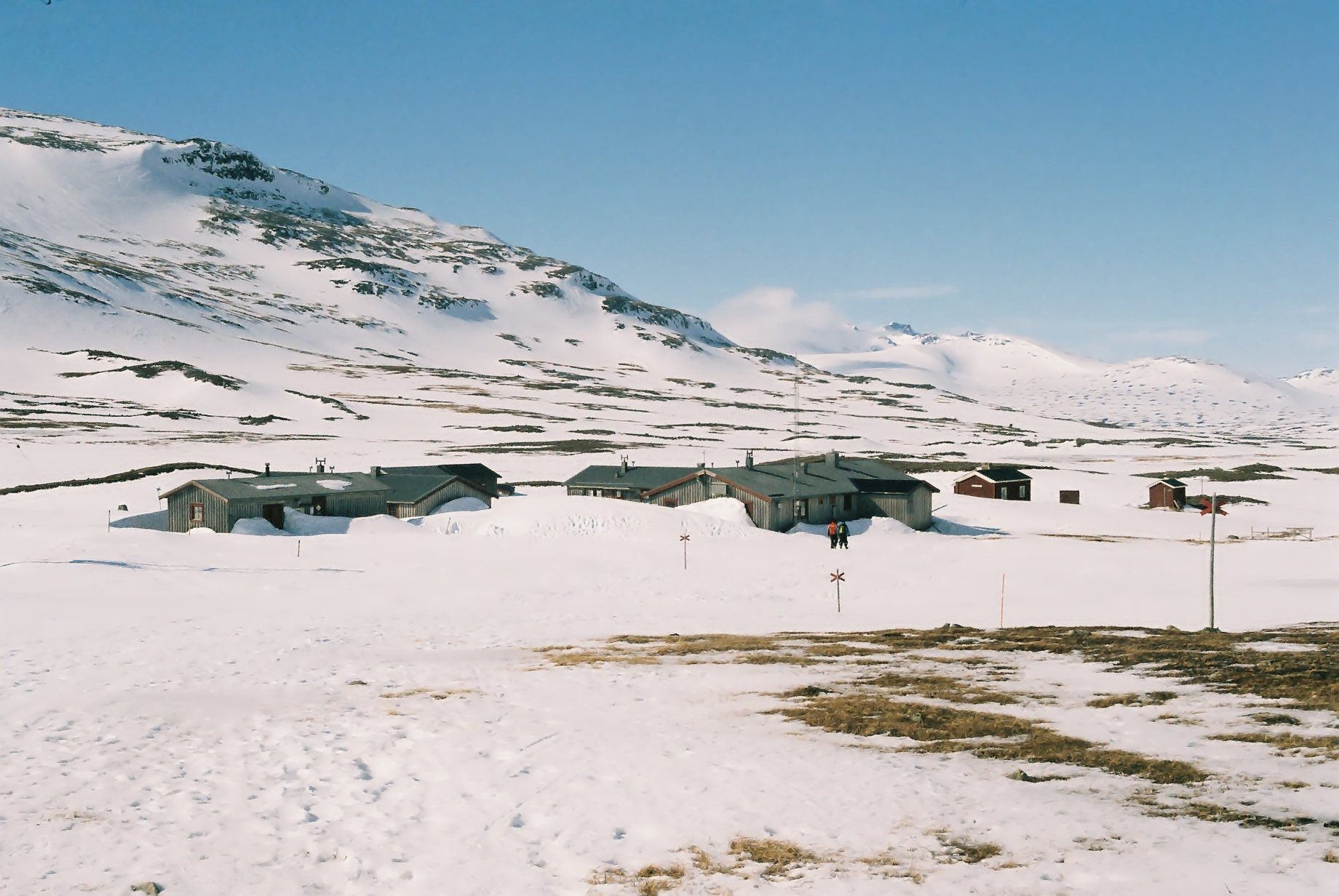 STF Mountain station Helags in April 2011